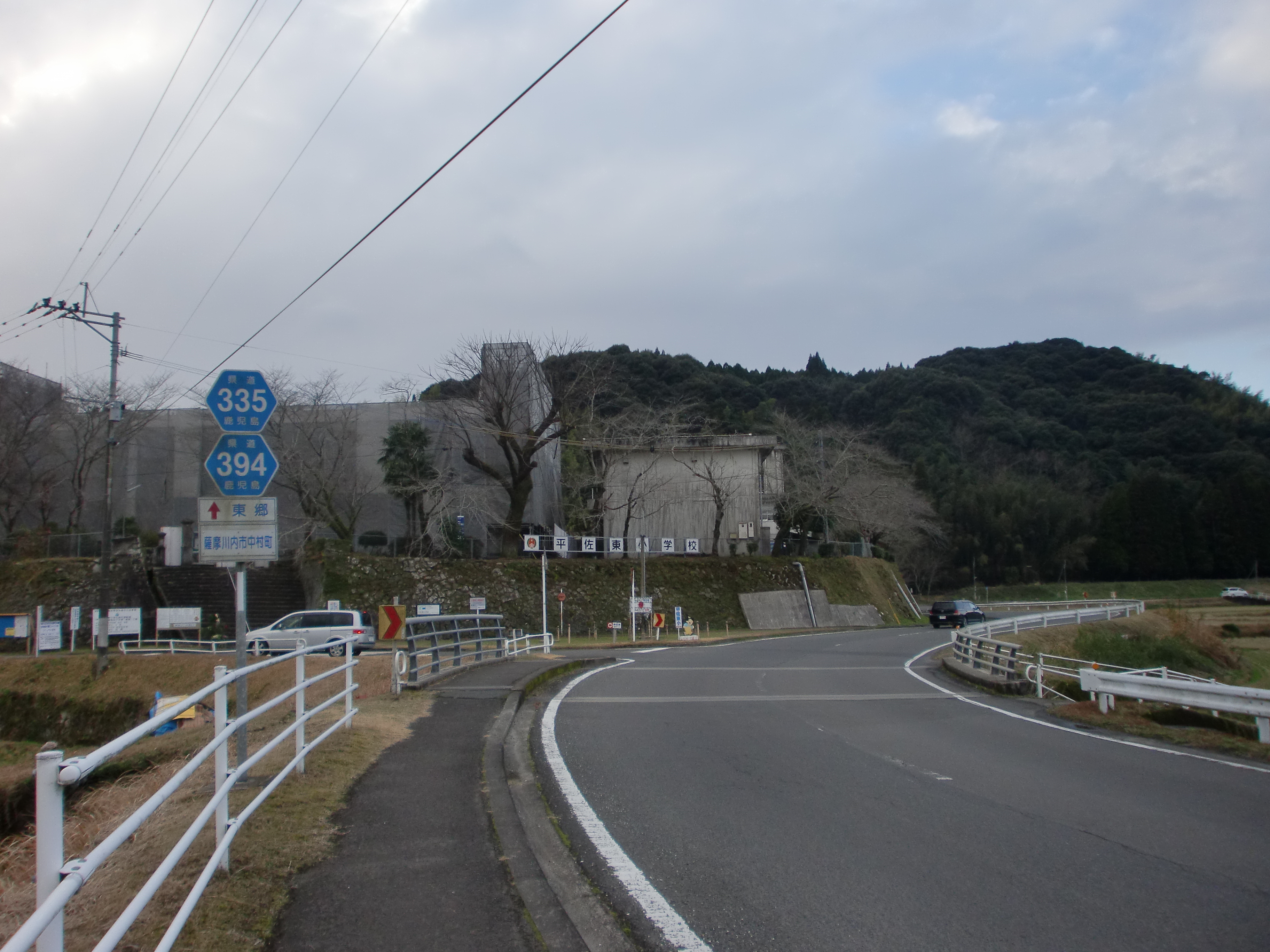 The Kagoshima Prefectural Road Route 335 and 394 in Nakamuracho, Satsumasendai City, view towards central Sendai